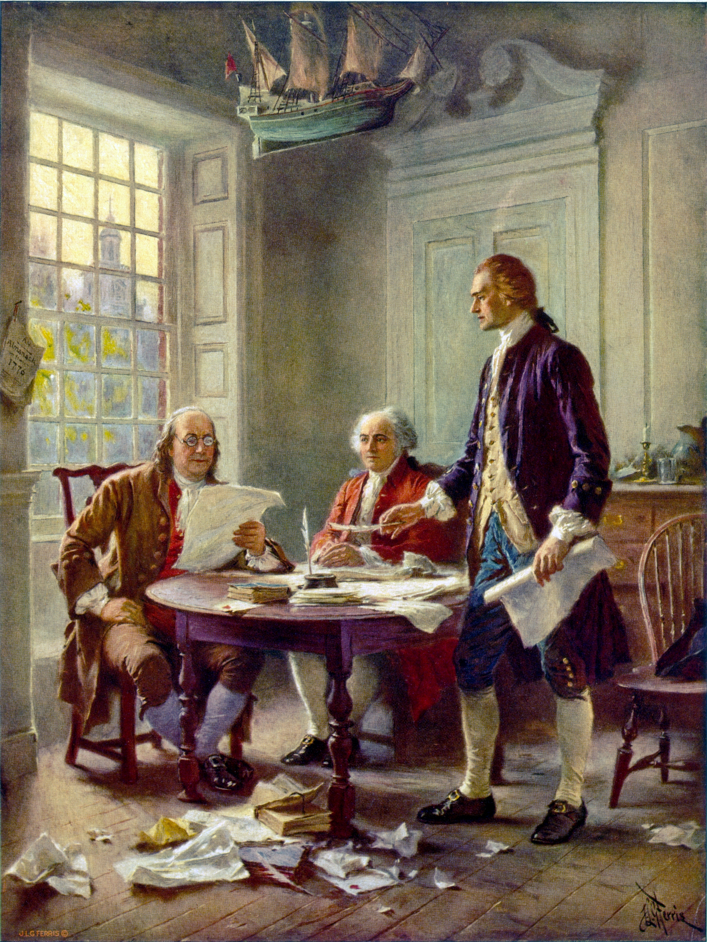 Thomas Jefferson (right), Benjamin Franklin (left), and John Adams (center) meet at Jefferson's lodgings, on the corner of Seventh and High (Market) streets in Philadelphia, to review a draft of the Declaration of Independence. 1 photomechanical print : halftone, color (postcard made from painting). Postcard published by The Foundation Press, Inc., 1932. Reproduction of oil painting from the artist’s series: The Pageant of a Nation.